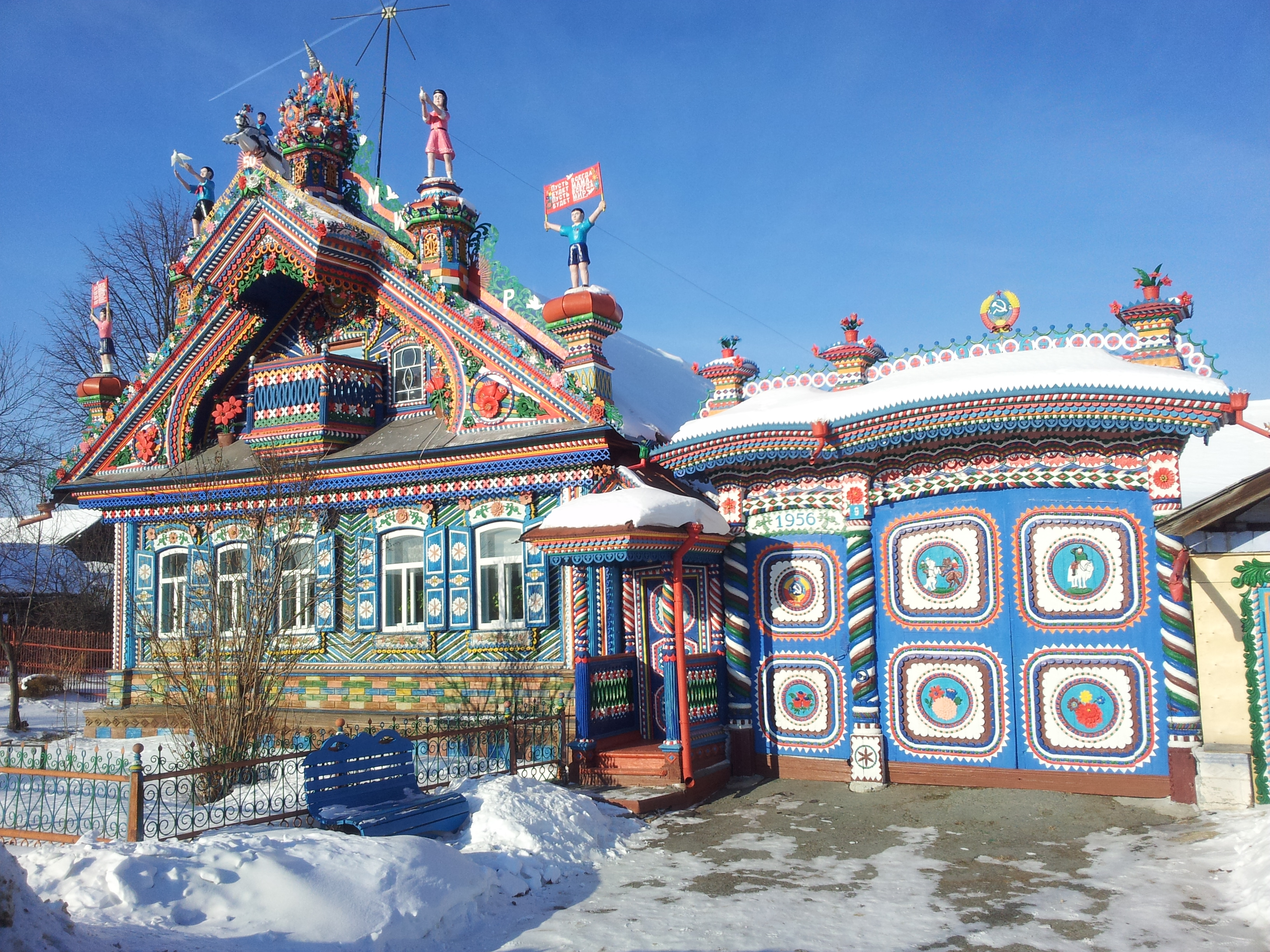 Kirillov's house in the village of Kunara, Sverdlovsk region, Russia